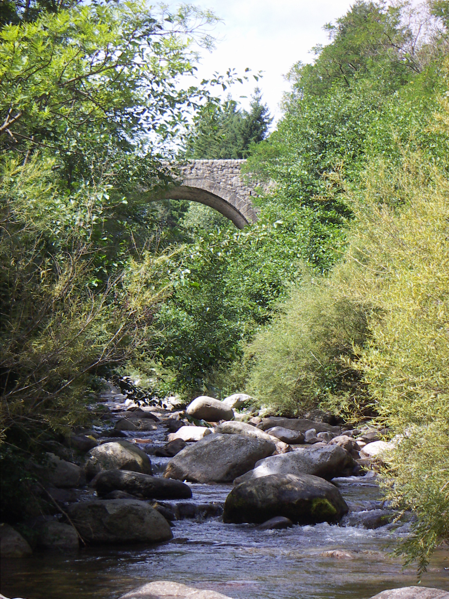 Lignon river and an old bridge